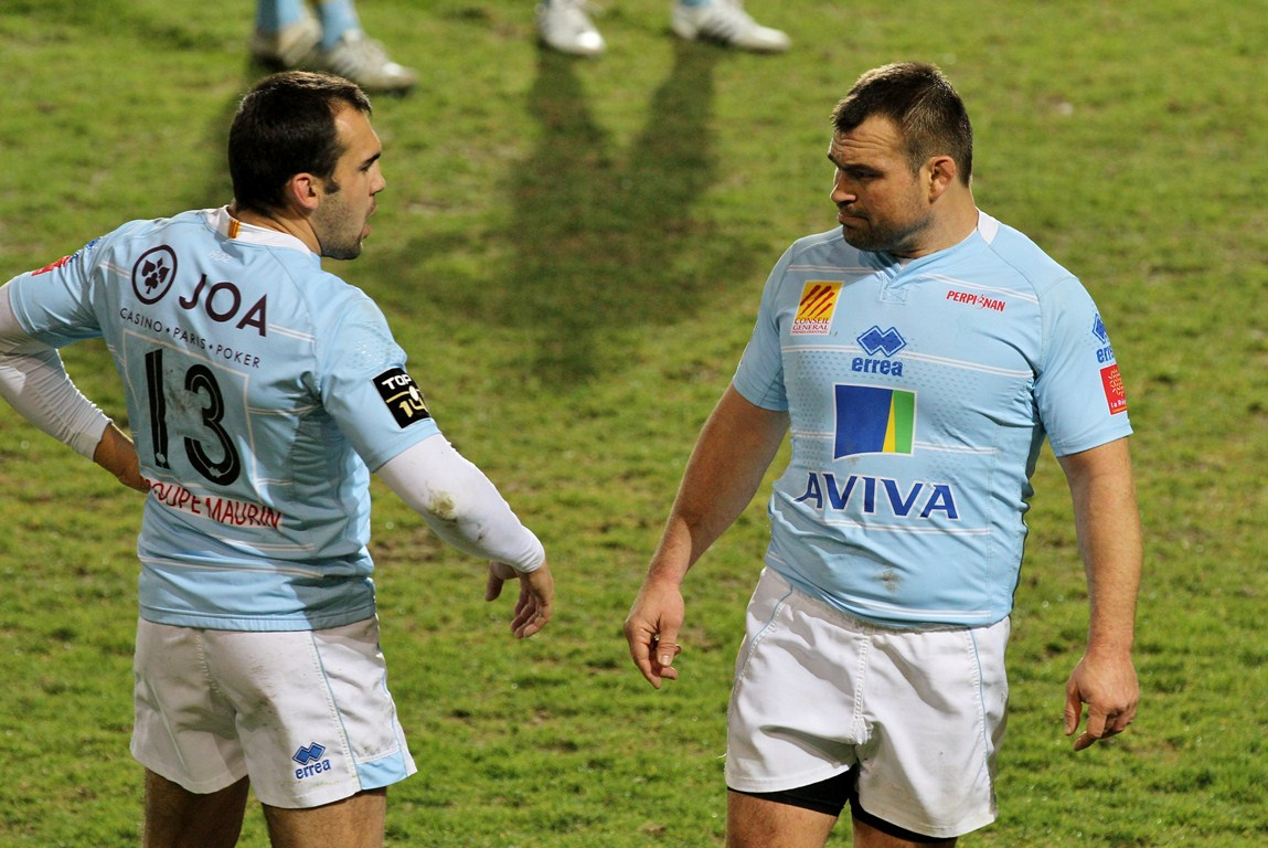 Discussion entre David Marty et Nicolas Mas face à l'ASM Clermont lors de la 16ème journée de Top 14